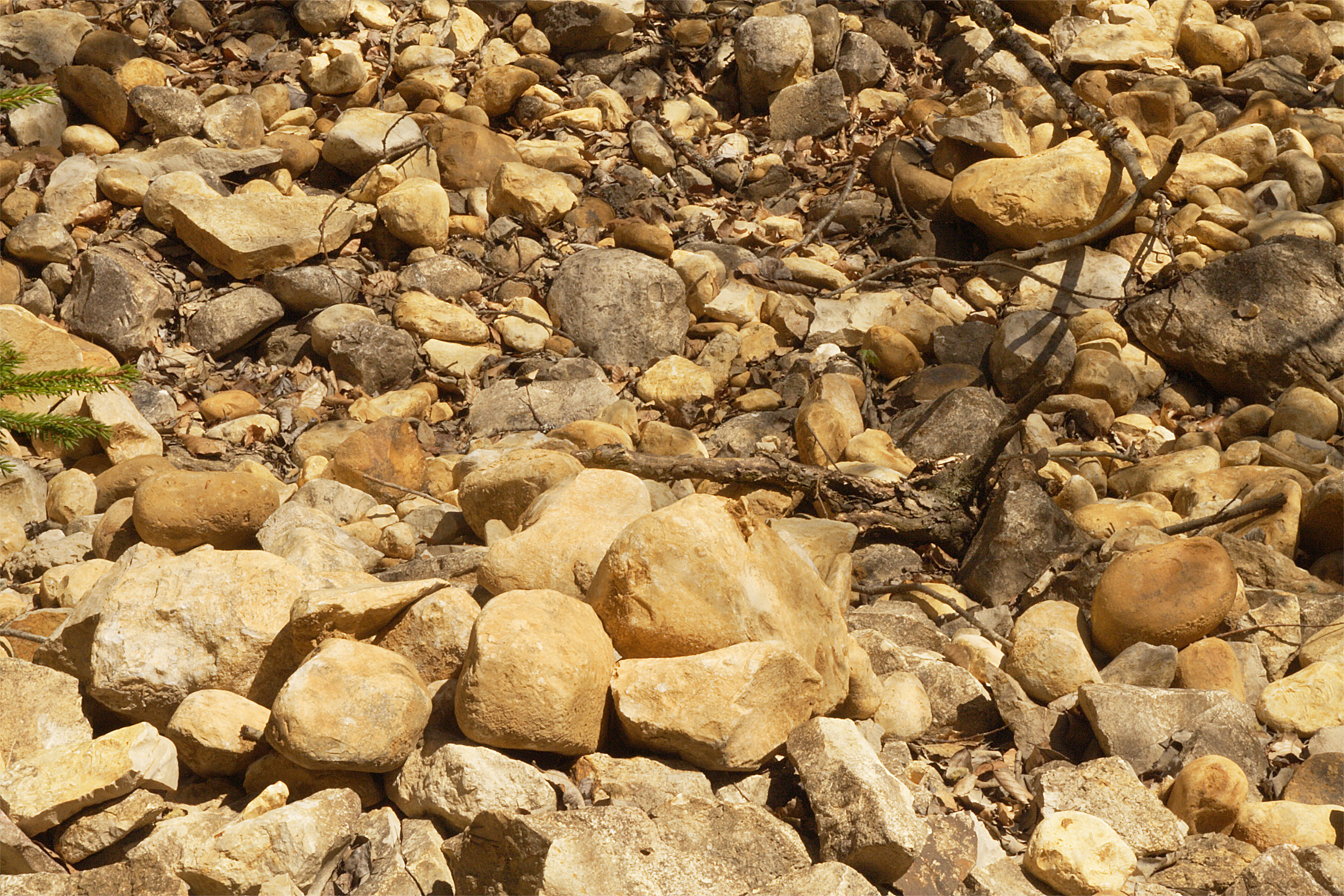 “Jüngere Juranagelfluh” of Miocene age in a quarry in Hondingen, village northeast of Blumberg West-Swabian Alb. The cobbles are a fluvial sediment coming from the northern foreland, the Black Forest and from the plateau of the Swabian Alb. They are associated with the alpine “Obere Süßwassermolasse” (Upper Freshwater Molasse). The cobbles came in such tremendous quantities, they produced three giant “runnels” (the dominant being the “Tengen runnel”) and pored their waters and cobble deposits up to 350 m high. Farming land is covered with it even today, mind the photo Image:Juranagelfluh_Obermiozaen_Tengener-Rinne_Riedoeschingen_Schwaebische-Alb.jpg). These ur-rivers pored their water into the “Graupensanrinne”, there forming huge alluvial fans.